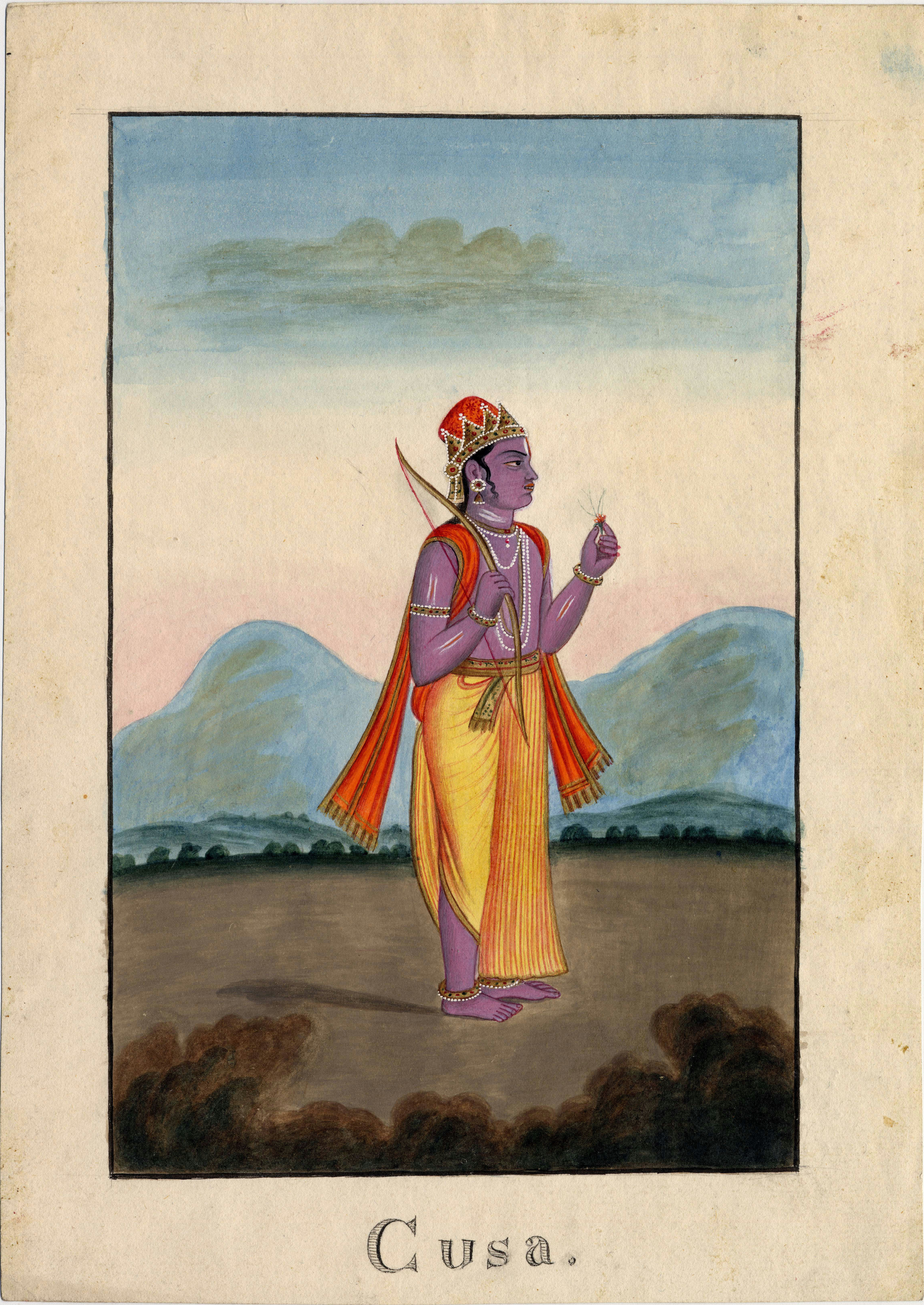 Watercolour painting on paper of Kusa, one of Rāma’s sons. He is shown as a crowned male with purple skin. He has two arms with which he holds a bow over his right shoulder and a flower in his left. He wears a yellow dhoti and a red shawl is draped over his shoulders. He has jewellery on his ears, at his neck and on his wrists and ankles. He has sectarian marks on his arms and neck. Foliage is shown in the foreground and the near distance with hills in the far distance. The painting is surrounded by a black border.